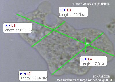 Measurements of large Amoeoba at 400X